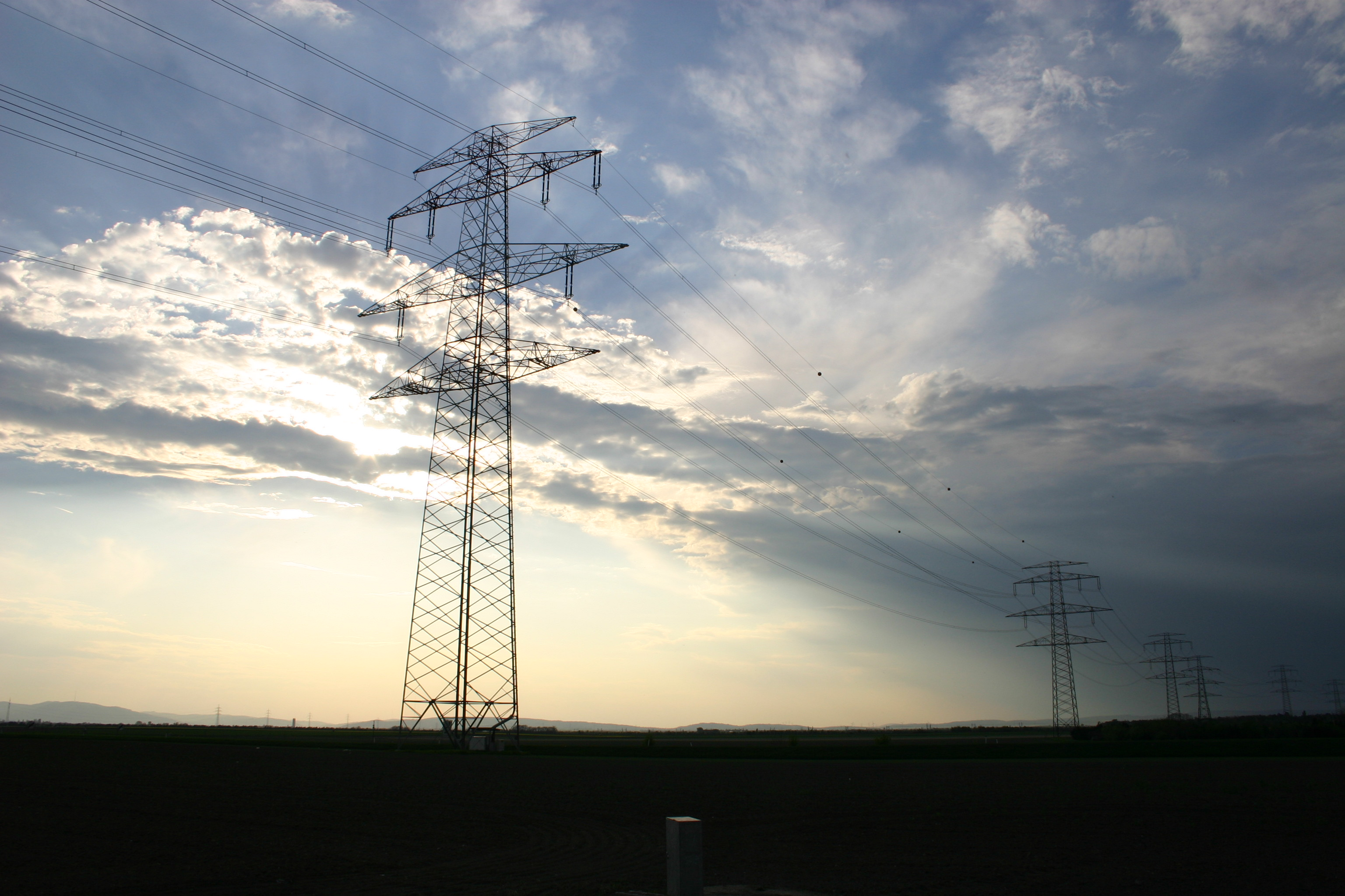 High-voltage Transmission Tower, Electricity pylon